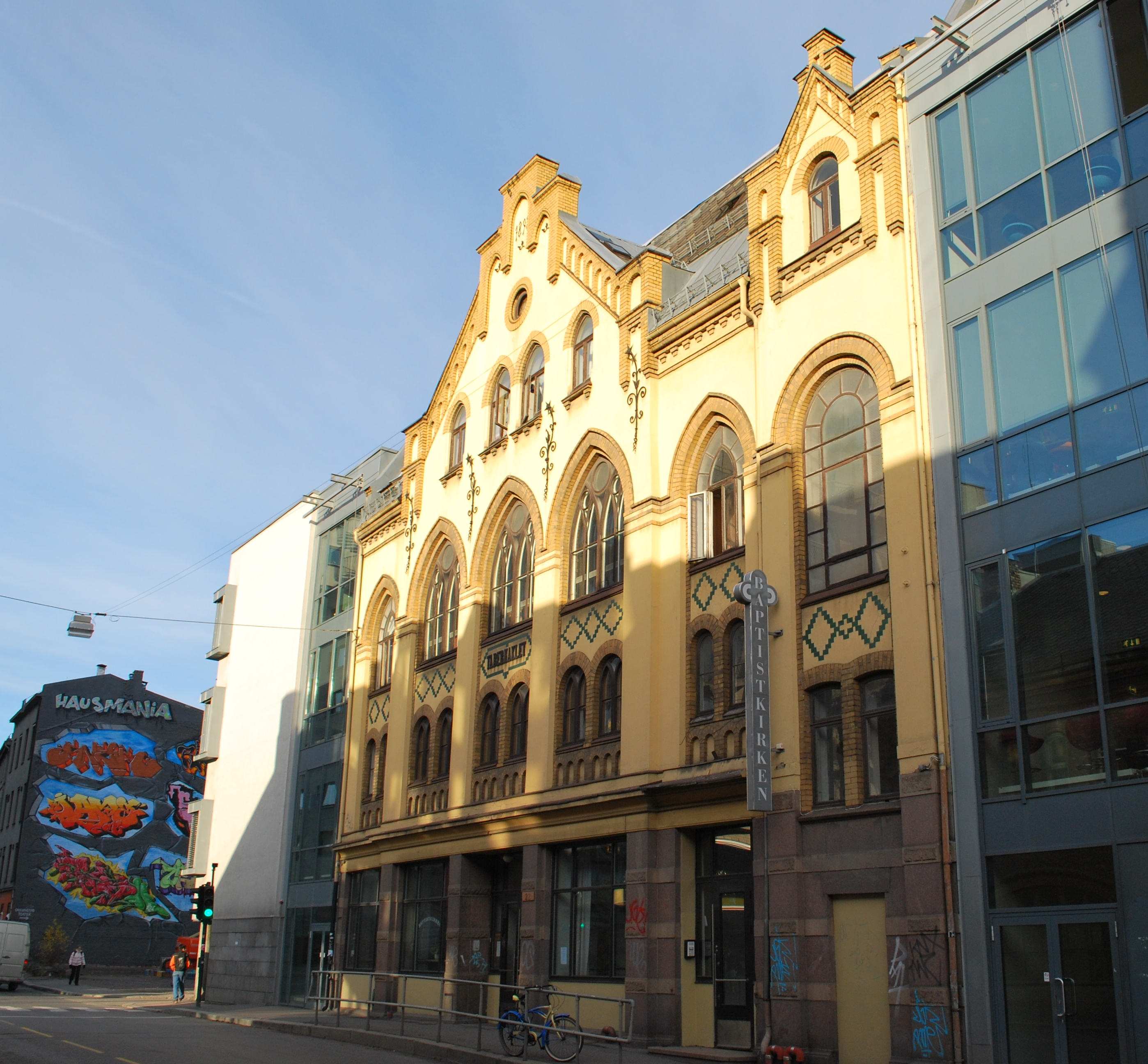 Oslo First Baptist Church (Norw. Oslo 1. baptistkirke), Hausmanns stret 22, Hausmannsområdet neighbourhood, Oslo. Built 1898, ca. 120 seats.